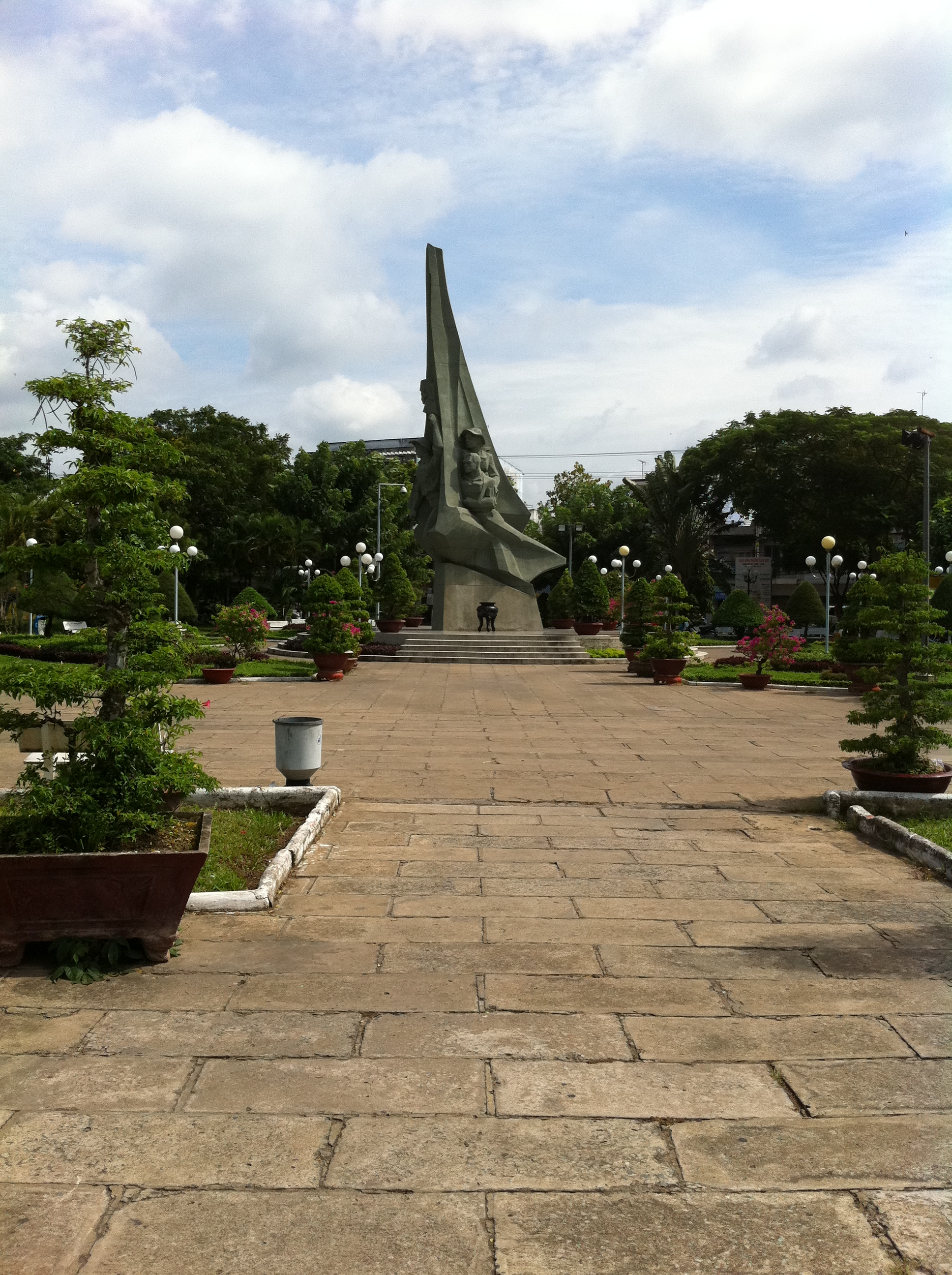 War memorial in My Tho (Tet Mau Than) 13m tall, in big lake park, Tien Giang, Vietnam